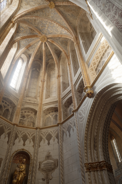 Abbaye Saint-Michel de Gaillac. Gaillac. Occitanie, Tarn. France. Former abbey (Abbaye Saint-Michel de Gaillac). The church. Interior. North chapel. Built by Roger de Latour. The vaults.. Ref: PM_117845_F_GaillacPhoto: Paul M.R. Maeyaert. . © Paul M.R. Maeyaert